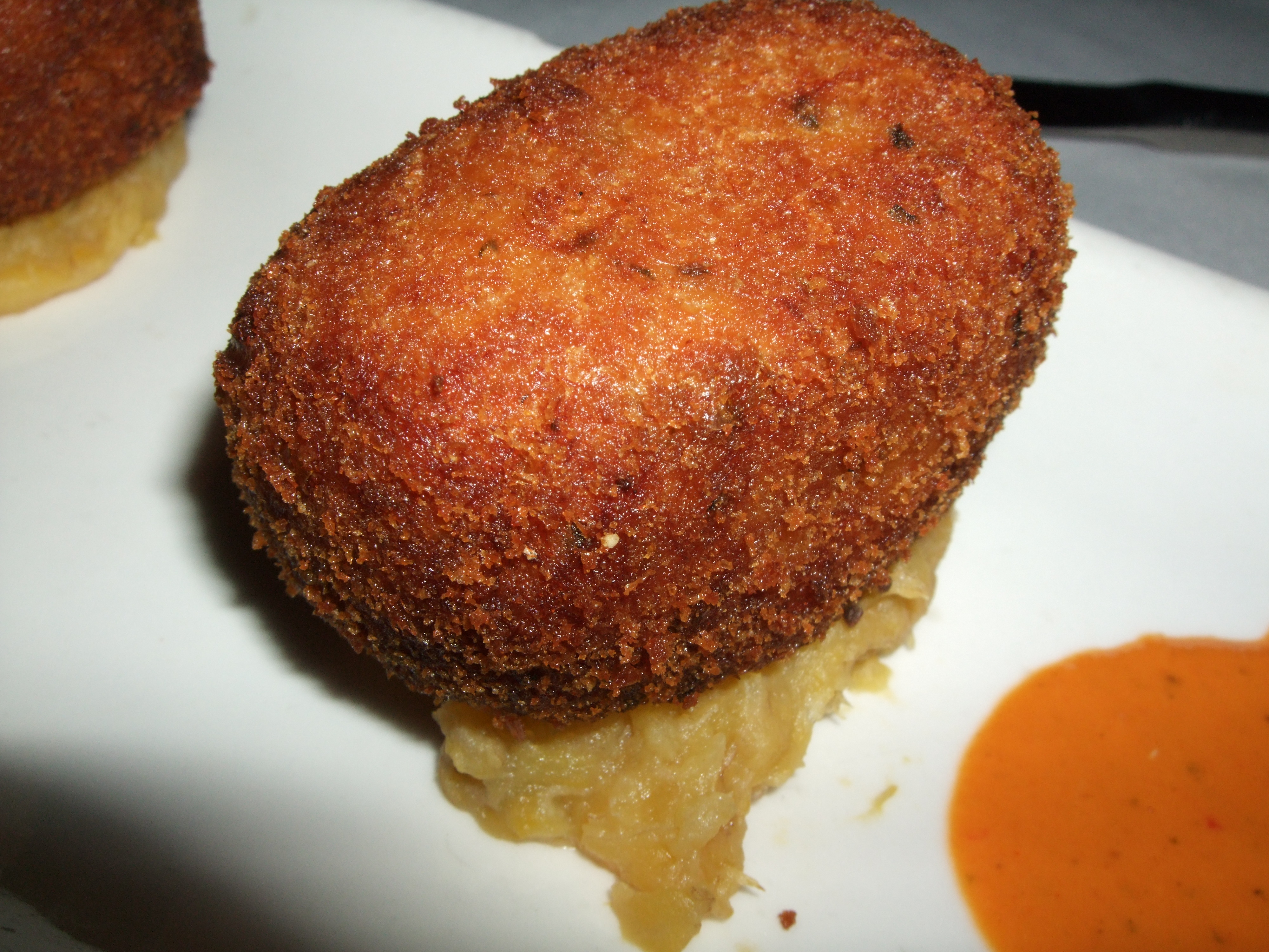 (This are not really Bacalaitos but Alcapurrias) golden codfish cakes, roasted eggplant and Piquillo peppers sauce.